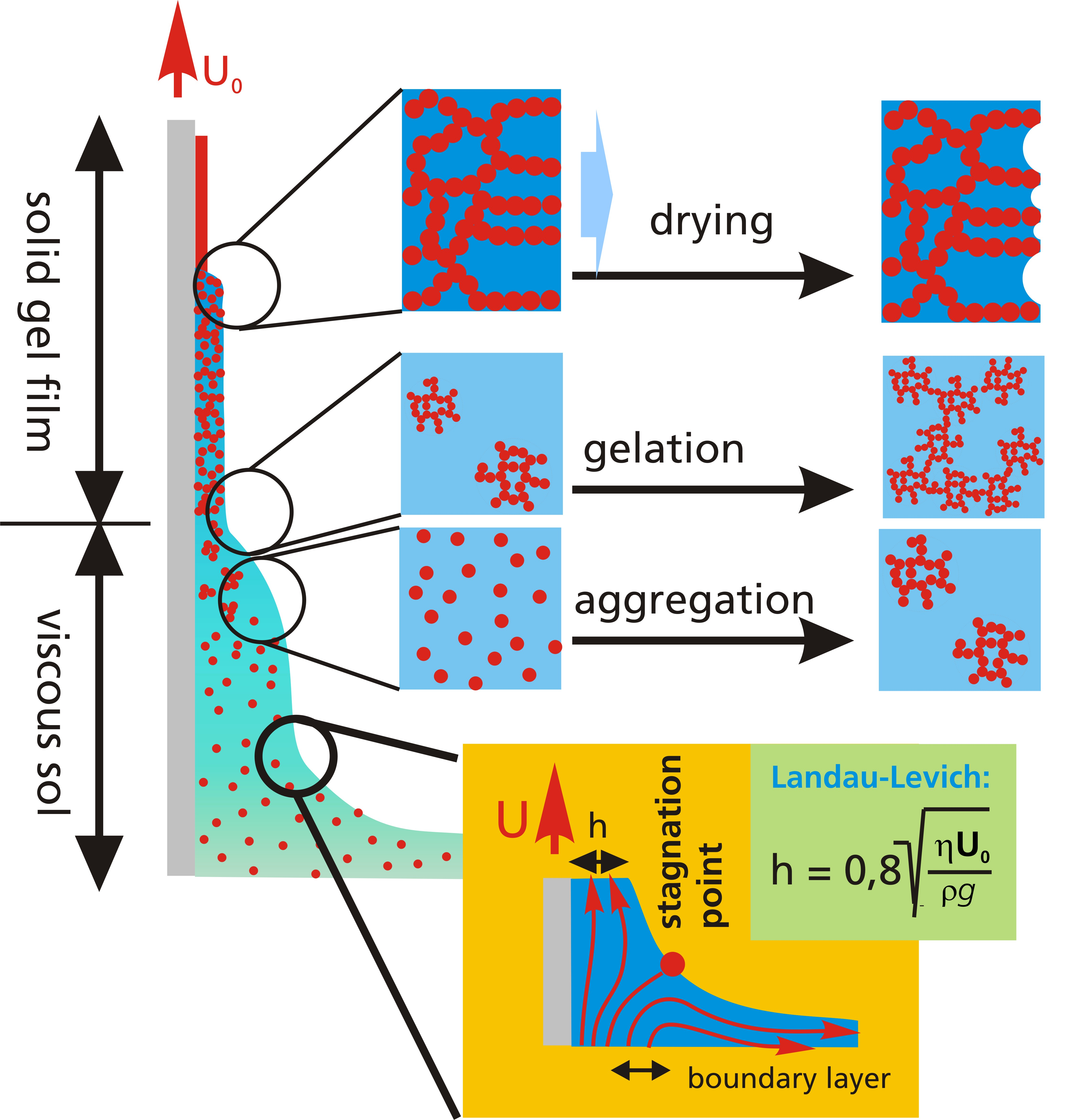 Details of Sol-Gel dip coating process